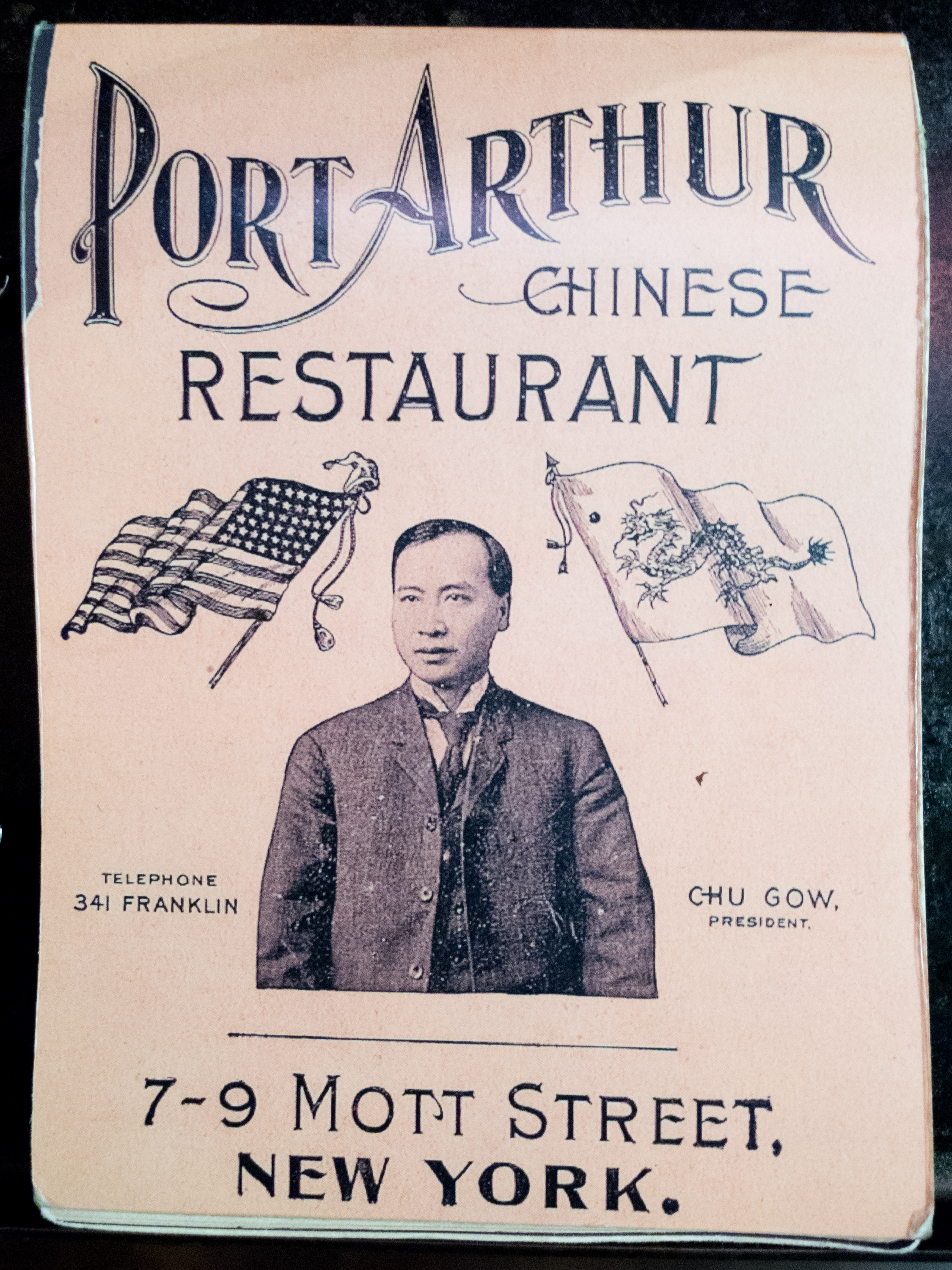 Port Arthur Chinese Restaurant menu, Museum of Chinese in America, Manhattan, New York City.